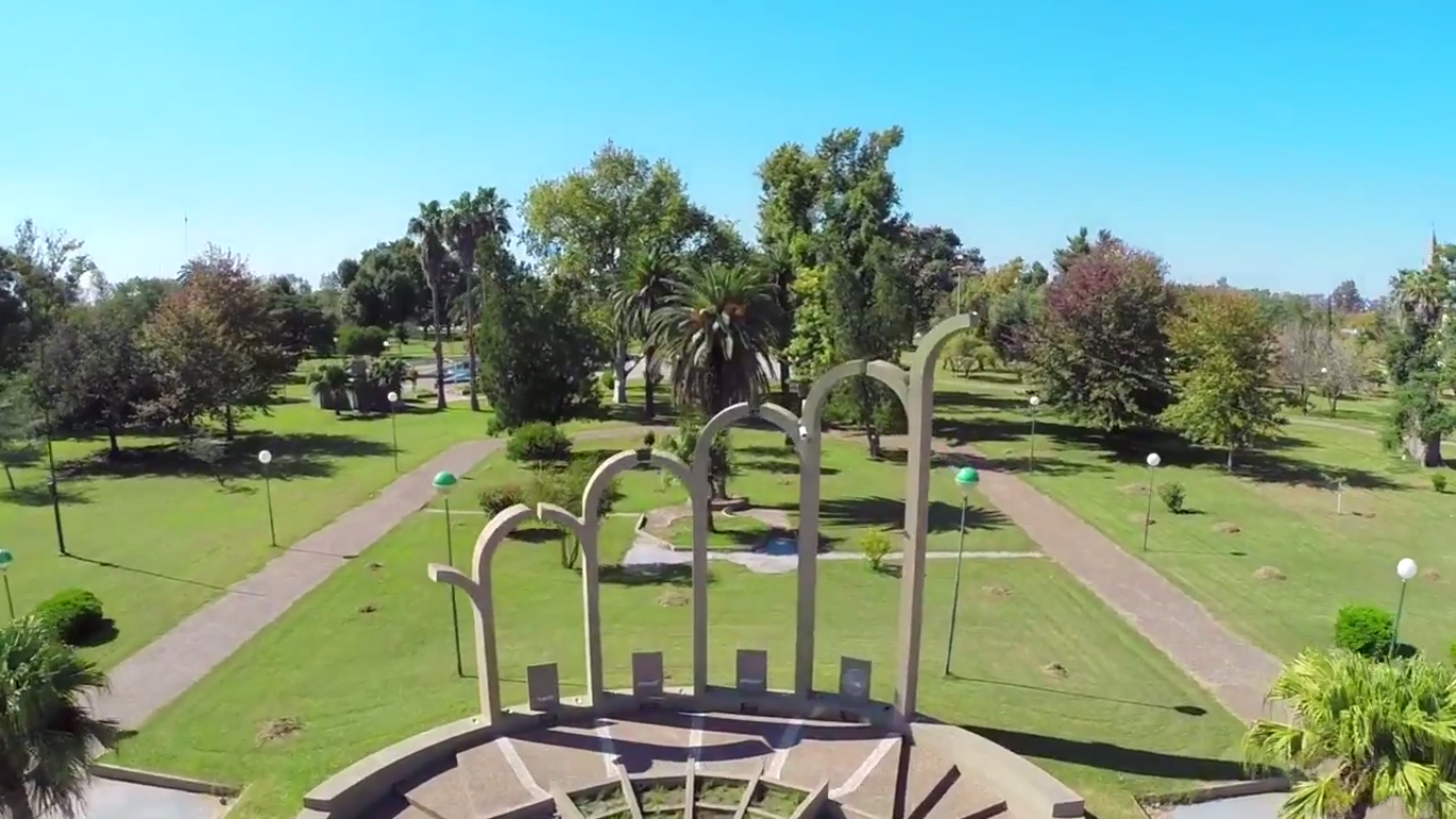 Memorial Aerial Photography, Humberto 1 °.